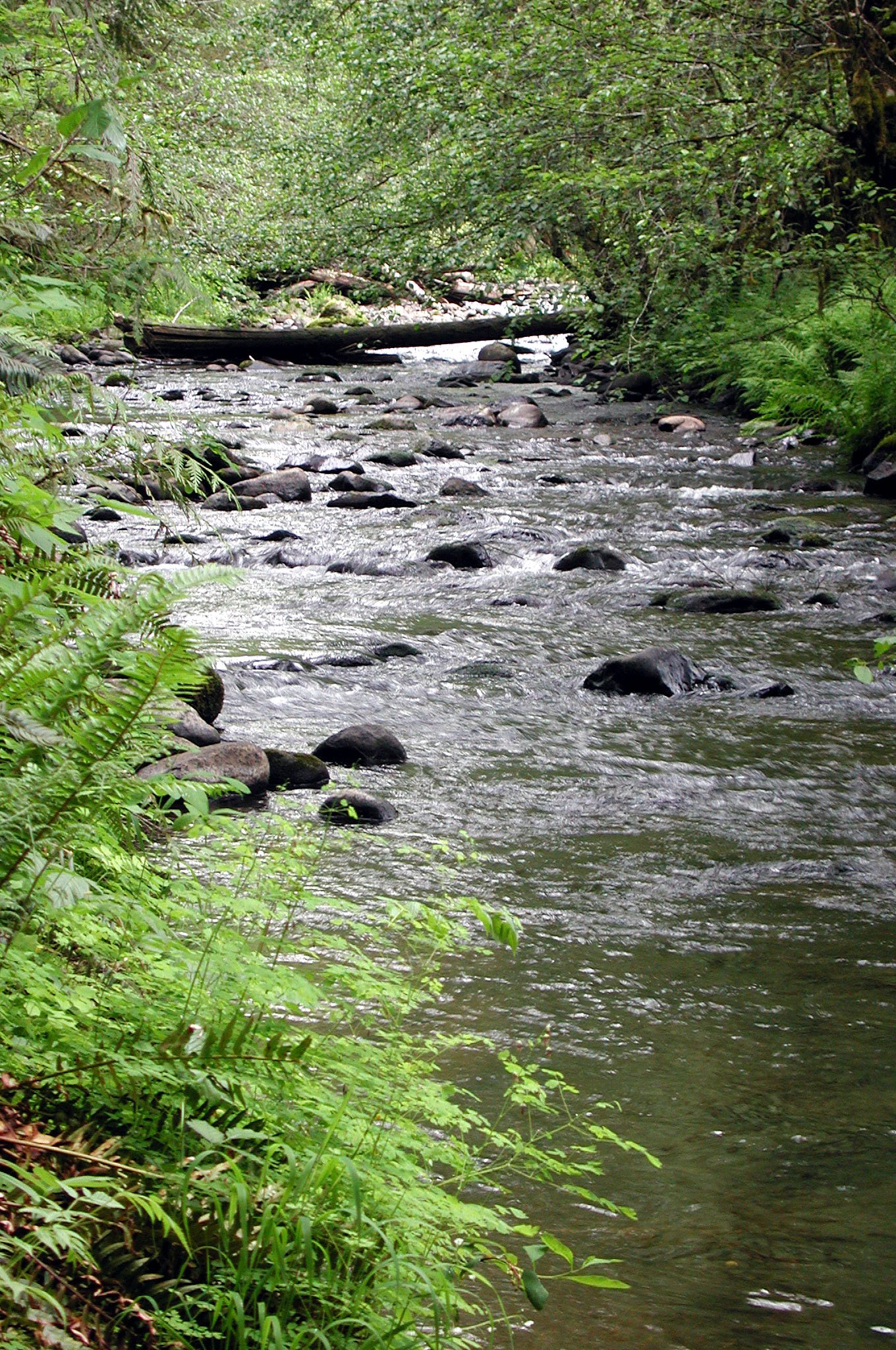 North Yamhill River at the Flying M Ranch near Yamhill, Oregon